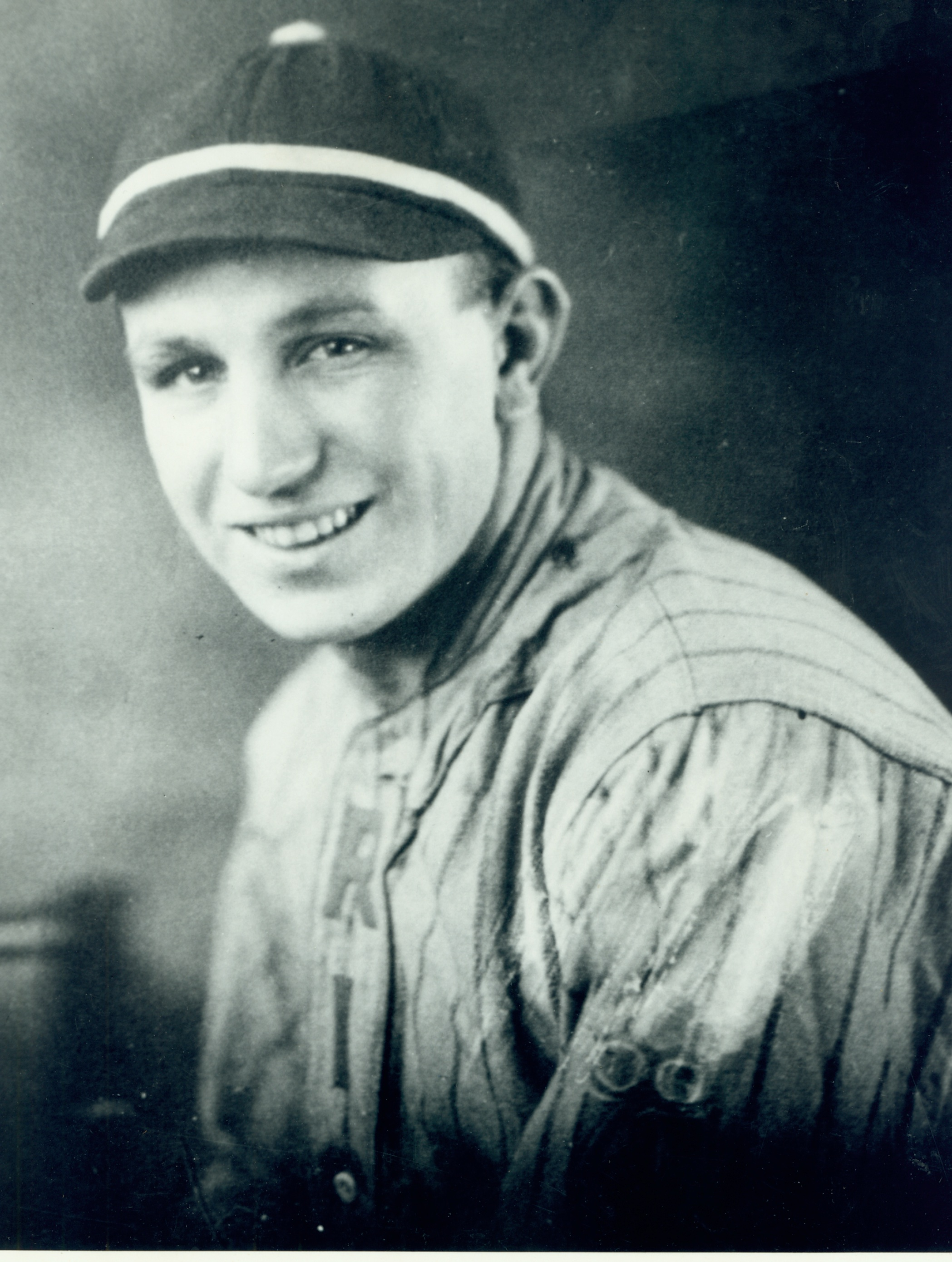 Eddie Dyer, Rice Institute (1921)